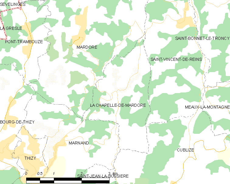 Map of French municipality